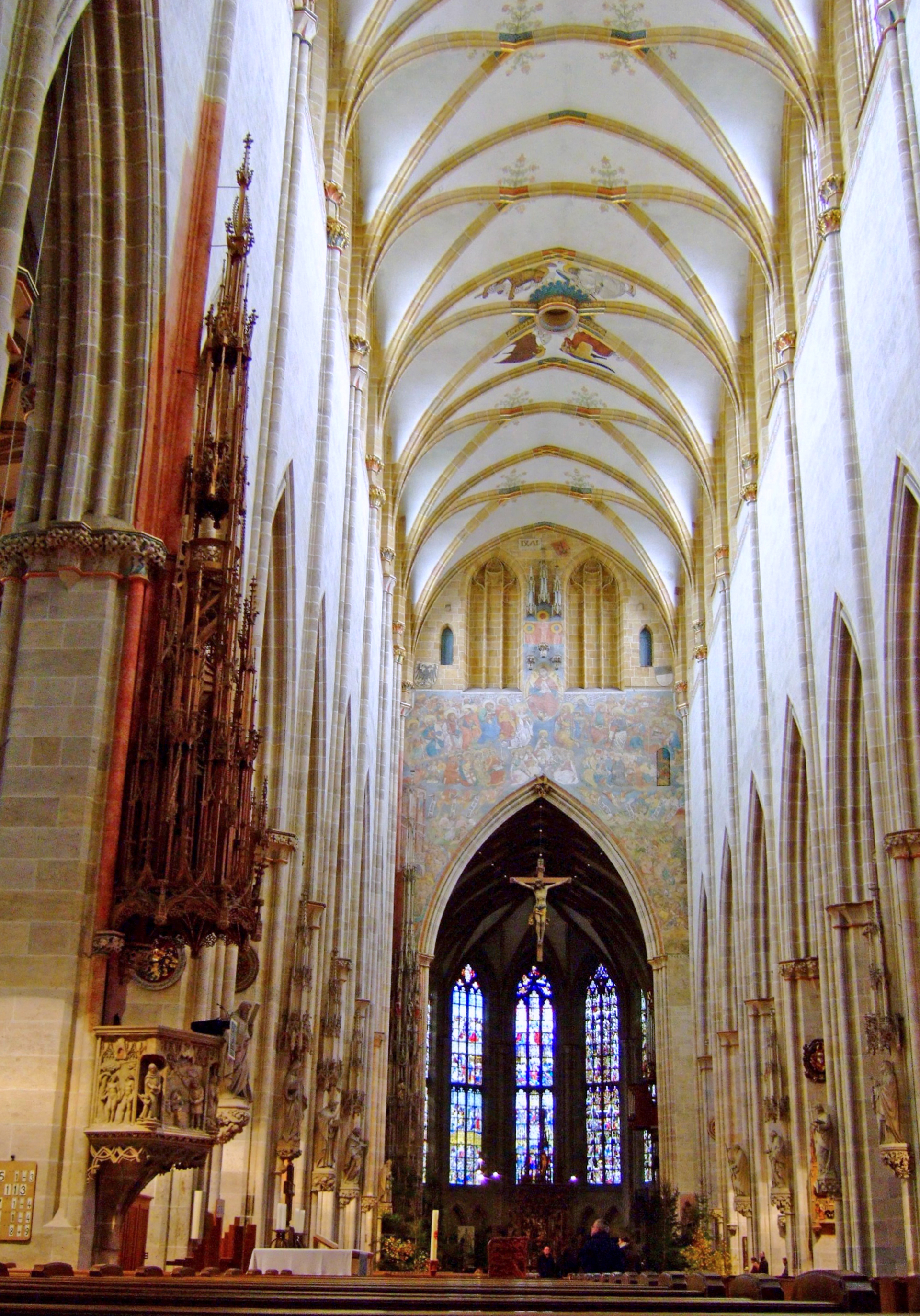 The Lutheran cathedral "Ulm Münster" of Ulm/Germany, looking towards the choir (it looks like a cathedral, but really it is a parish church, there has never been a bishop, neither a Roman Catholic bishop before the Reformation, nor a Lutheran bishop after the Reformation)